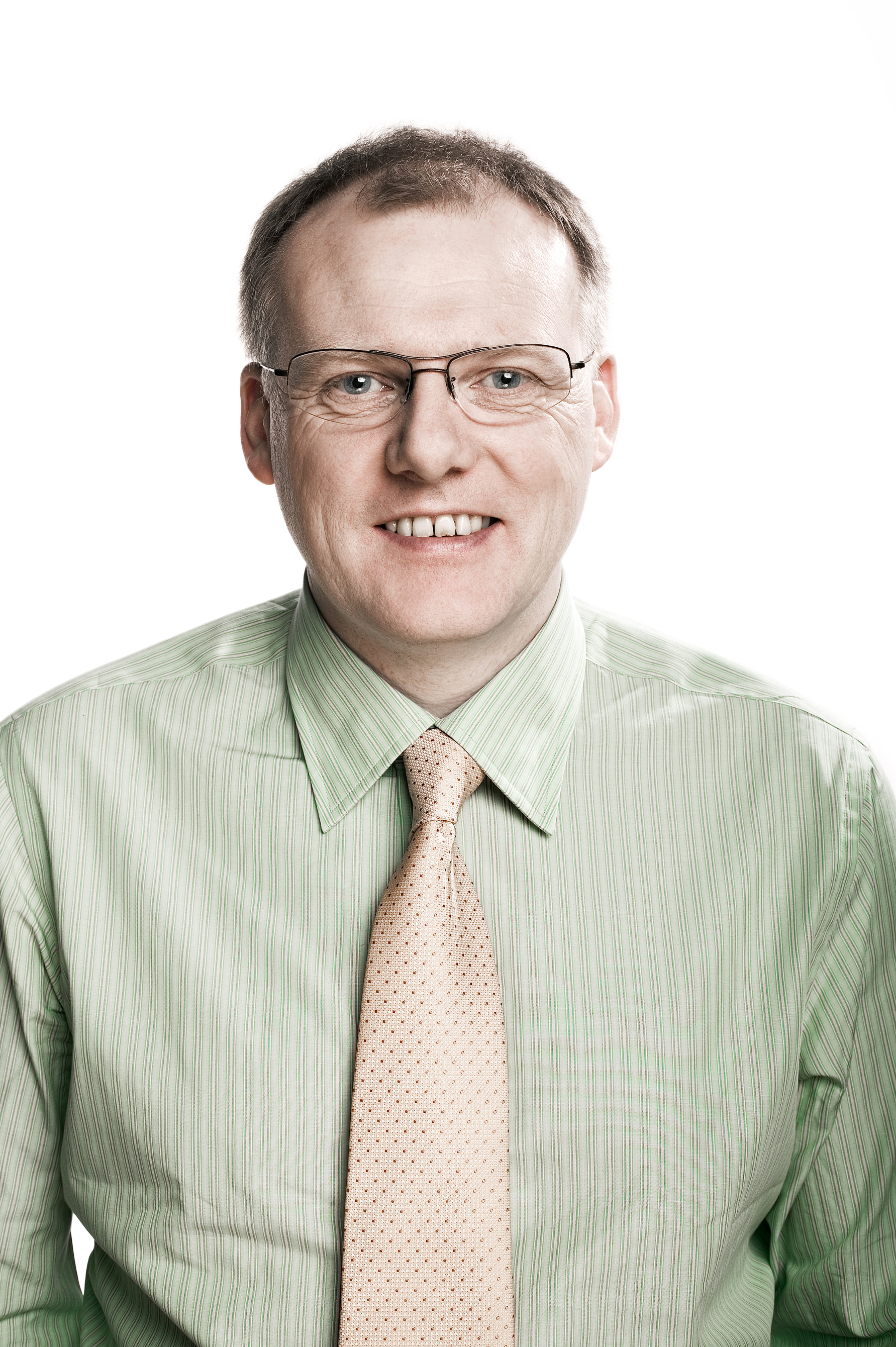 Árni Þór Sigurðsson, MP of the Icleandic Left-Green movement